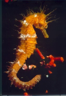 Sea horse (Hippocampus guttulatus) in Porto Conte cave Alghero Sardinia